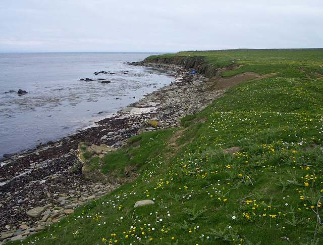 Coast near Odness, Stronsay. Looking up the coast in the direction of the Holm of Odness.